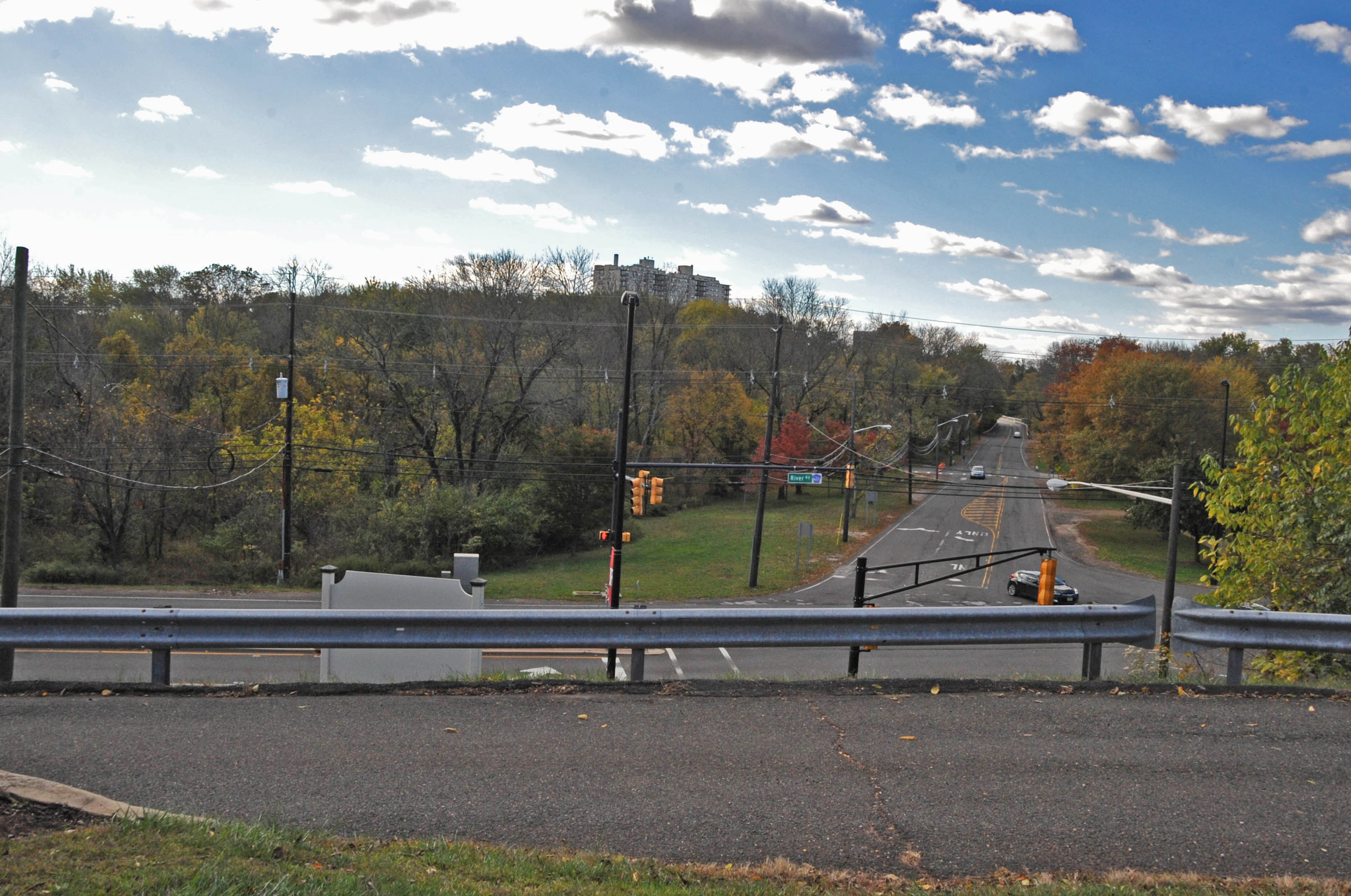 LOCATED AT THE JUNCTION OF RIVER ROAD AND LANDING ROAD. TOWN EXISTED FROM 1710 UNTIL THE1870’S/ IT WAS HEAVILY DAMAGED BY OCCUPATION OF HESSIAN TROOPS IN THE REVOLUTION. HOWEVER IT PROSPERED AFTERWARD UNTIL BETTER PORTS LED TO ITS DEMISE. IT EXISTED ON BOTH SIDES OF LANDING ROAD BUT NOTHING REMAINS TODAY. THIS PICTURE LOOKS DOWN FROM THE CORNELIUS LOW HOUSE RIGHT ONTO THE JUNCTION OF RIVER ROAD AND LANDING ROAD